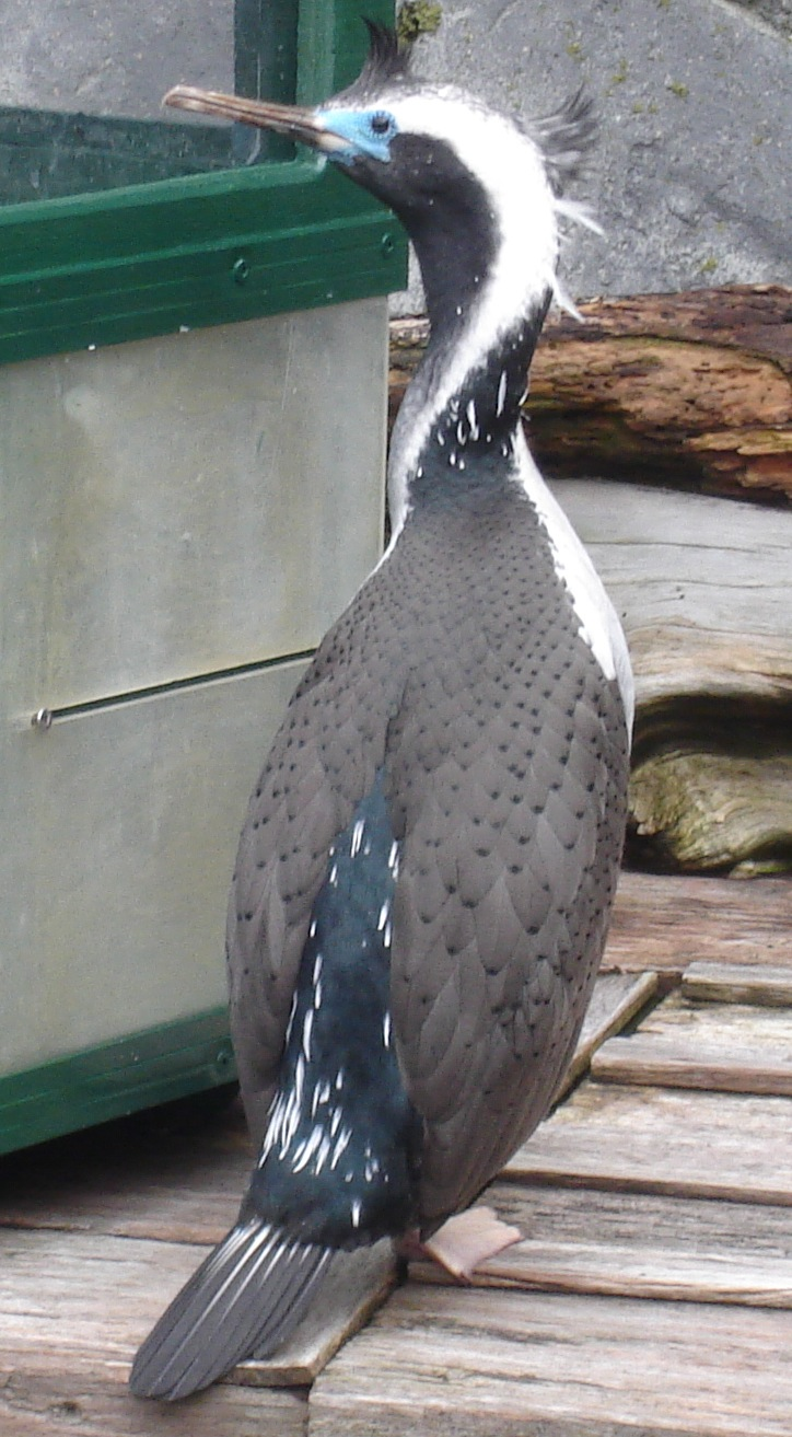 Phalacrocorax punctatus, Auckland Zoo